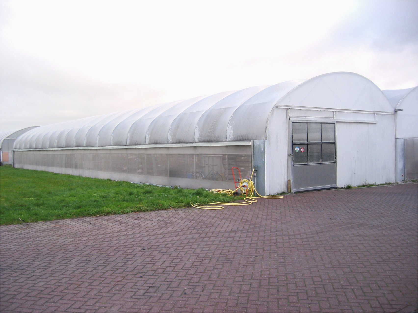 Plastic glasshouse